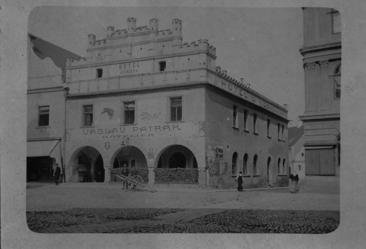 Hotel Bily konicek, historical postcard 1920 AD.